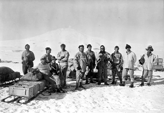 Outdoor group portrait of Captain Scott (sixth from left) and the "Southern Party" during the British Antarctic ("Terra Nova") Expedition (1910-1913). Mount Erebus is in the background. Shows a row of eleven men wearing cold weather clothing, standing in snow alongside sleds laden with supplies.